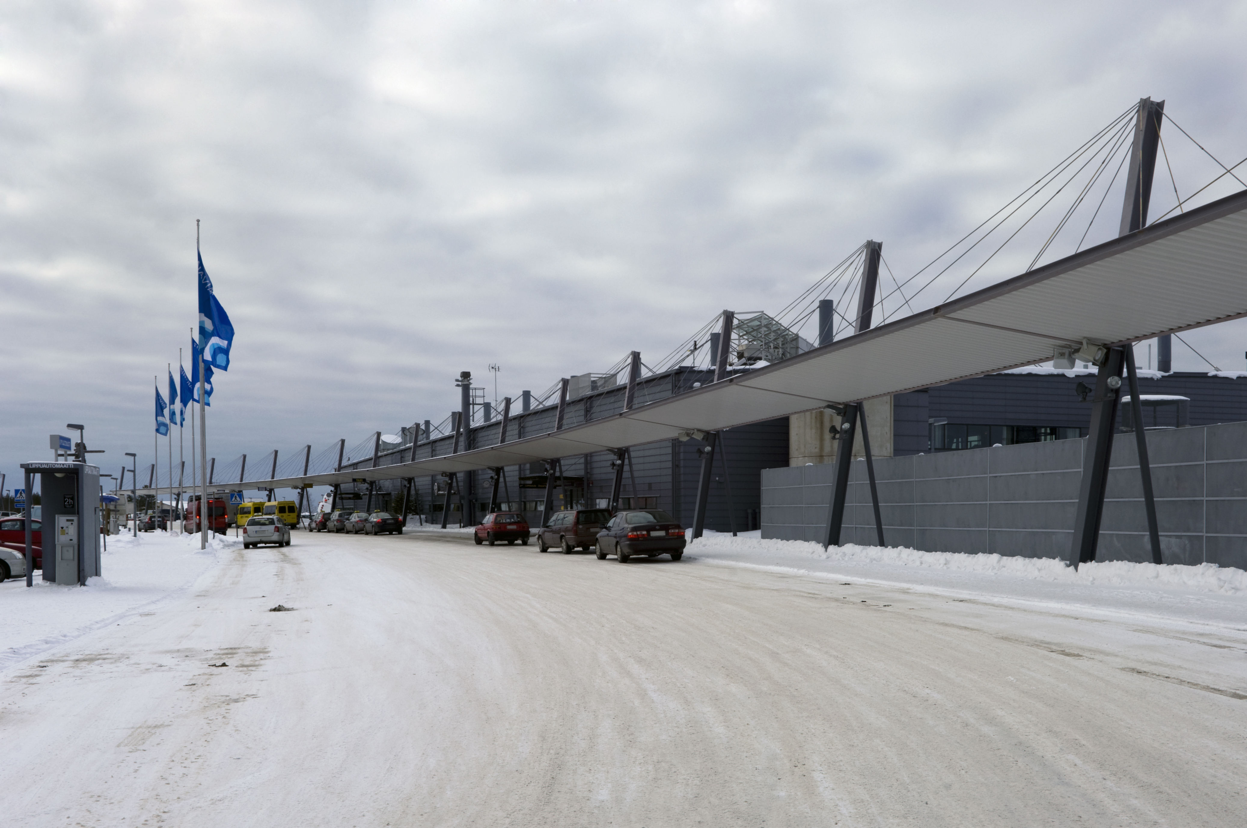 Rovaniemi Airport in Lapland, Finland.